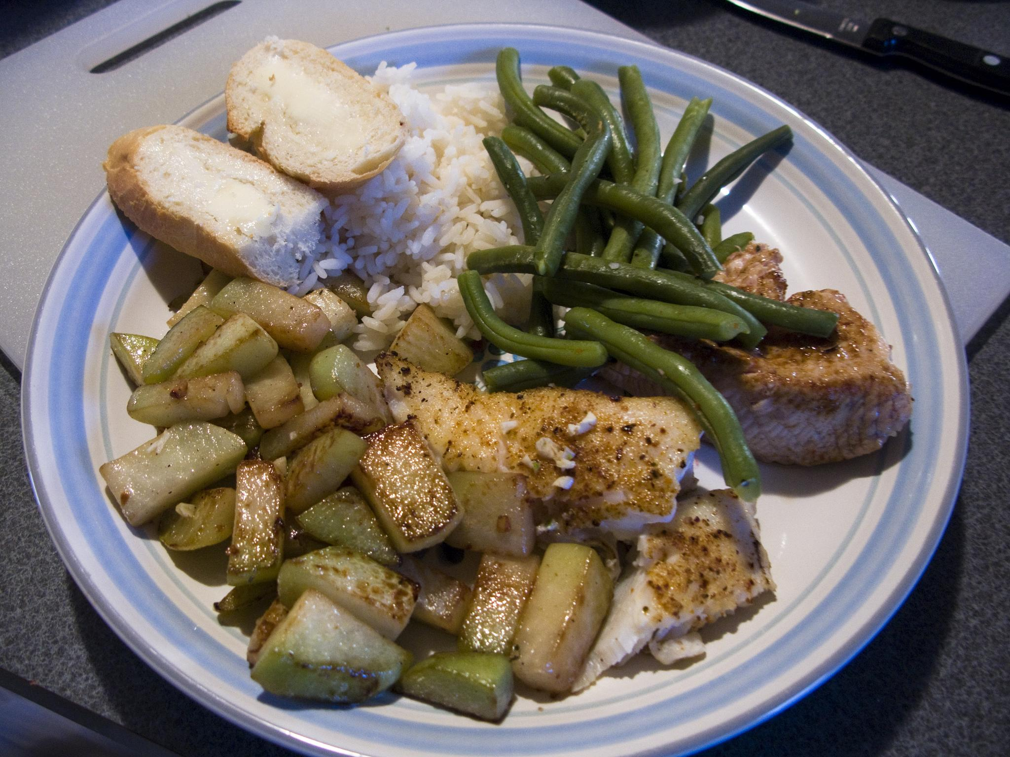 Something fishy going on here! Thresher shark, halibut, green beans, rice, bread, and kohlrabi